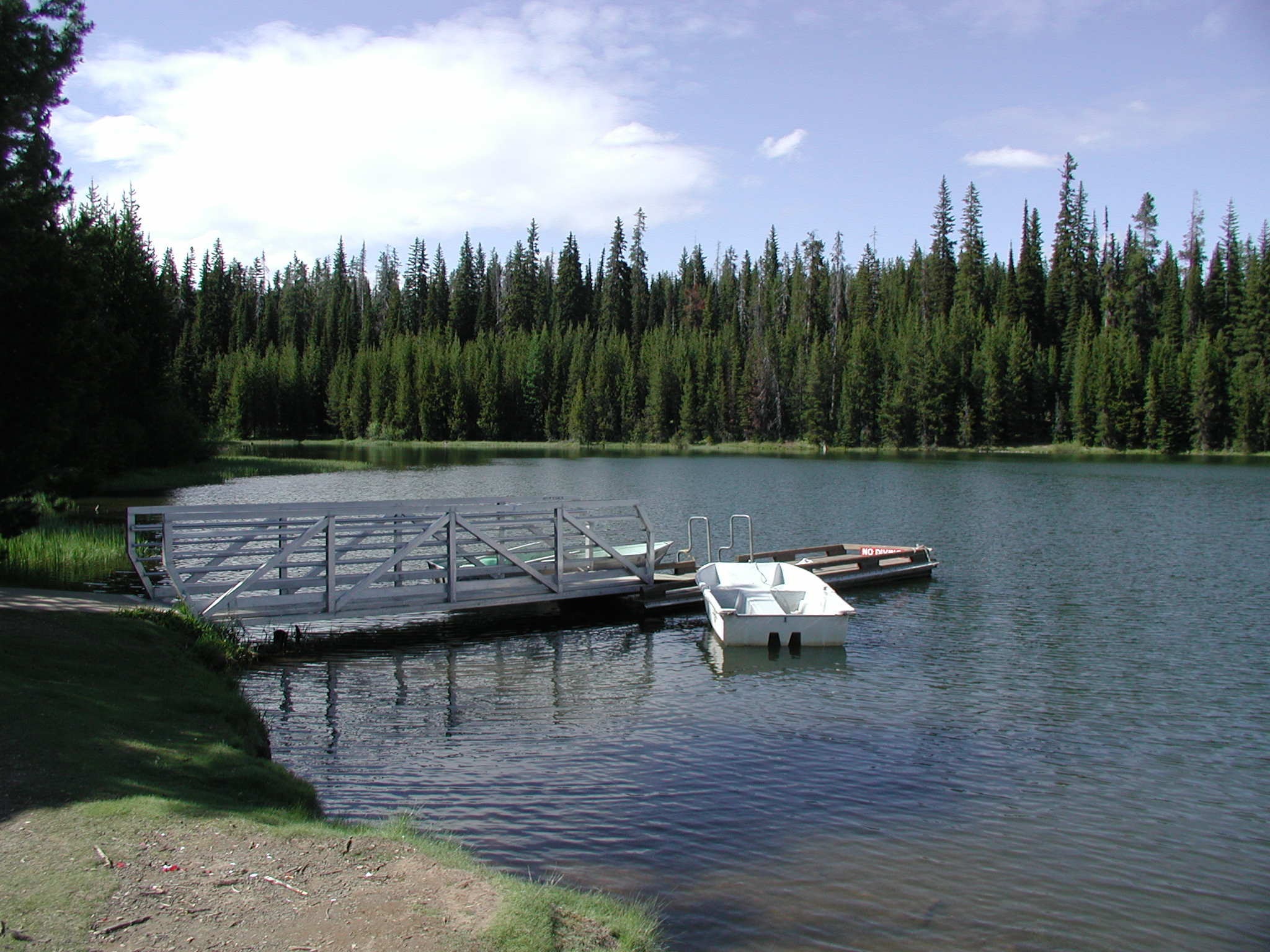 Small dock at Jubilee Lake, Umatilla National Forest, Union County, Oregon, United States